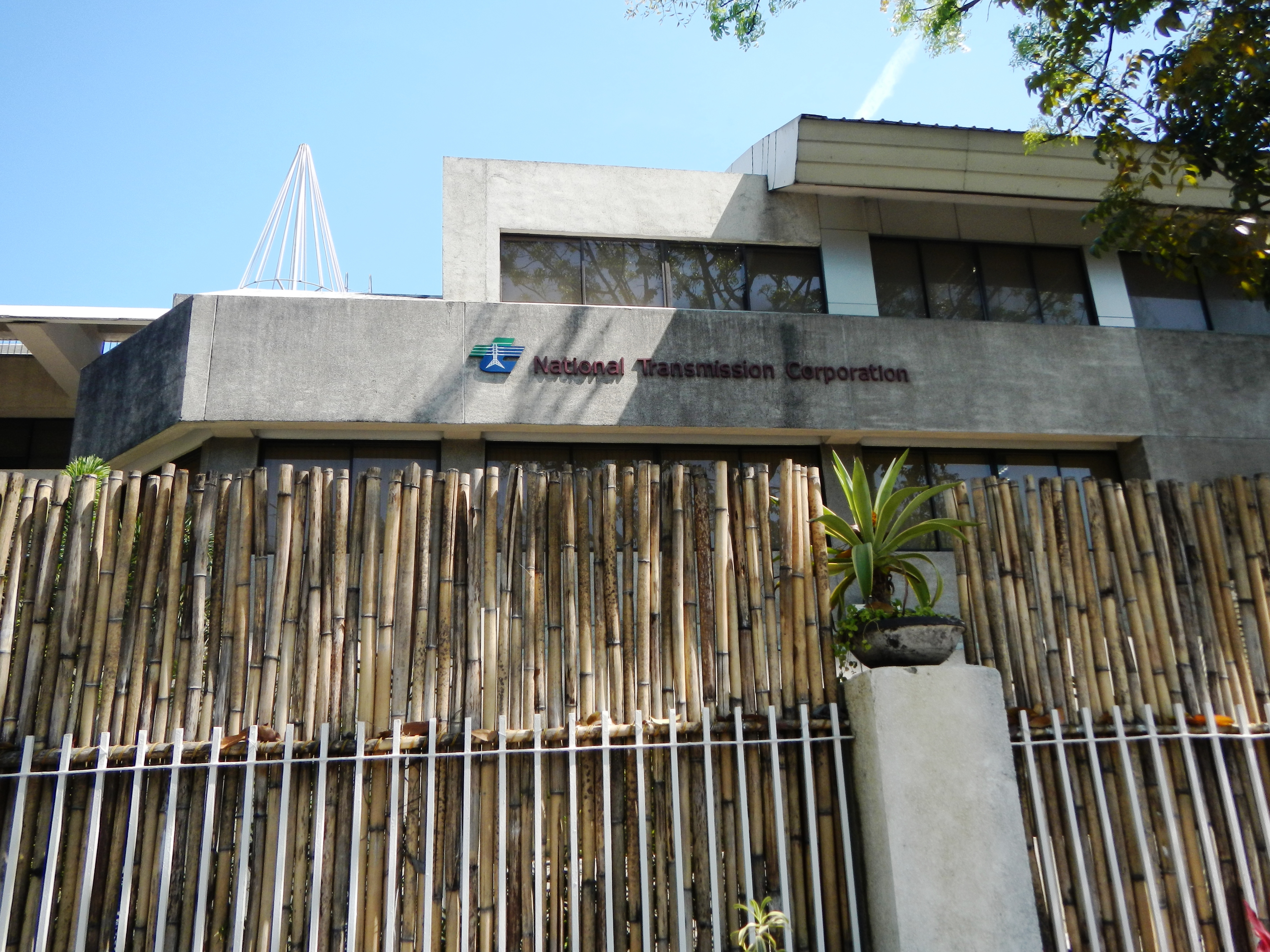 National Transmission Corporation, National Grid Corporation, Quezon Avenue.